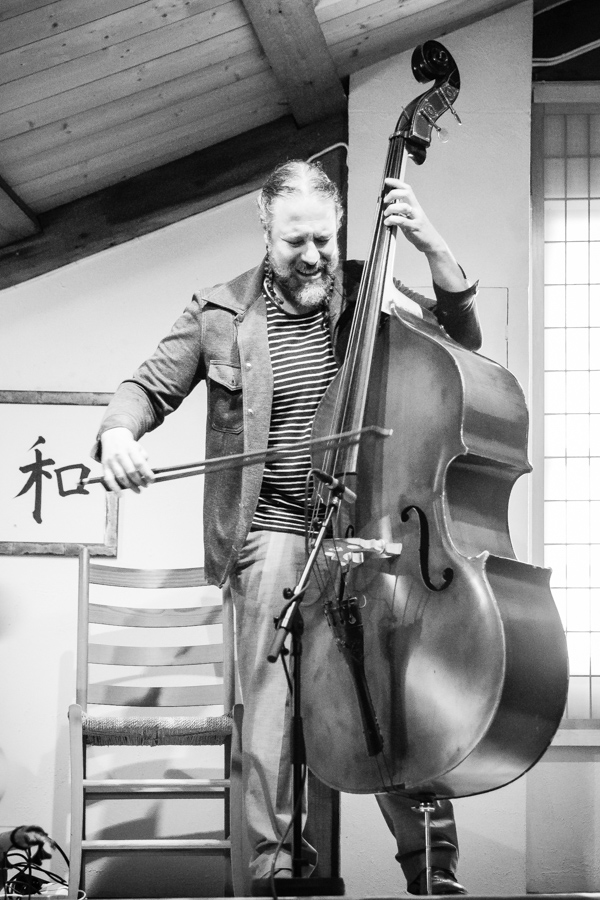 Joshua Abrams in a concert at Galleri Åkern. The concert was part of Kongsberg Jazzfestival and took place on 04. July 2019 in Kongsberg. Lineup:Hilde Marie Holsen (trumpet)Joshua Abrams (double bass)